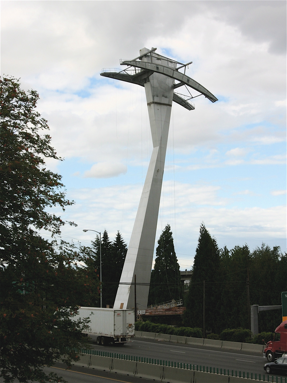 The tower of the Portland Aerial Tram while under construction.